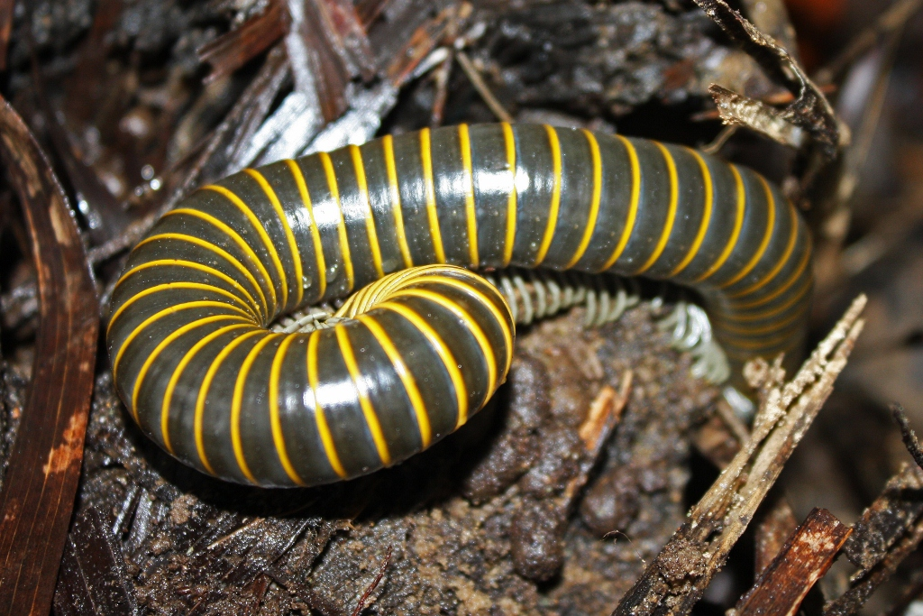 Frequently found during our treks in Guantanamo & Holguin. I think it's a bumblebee millipede.